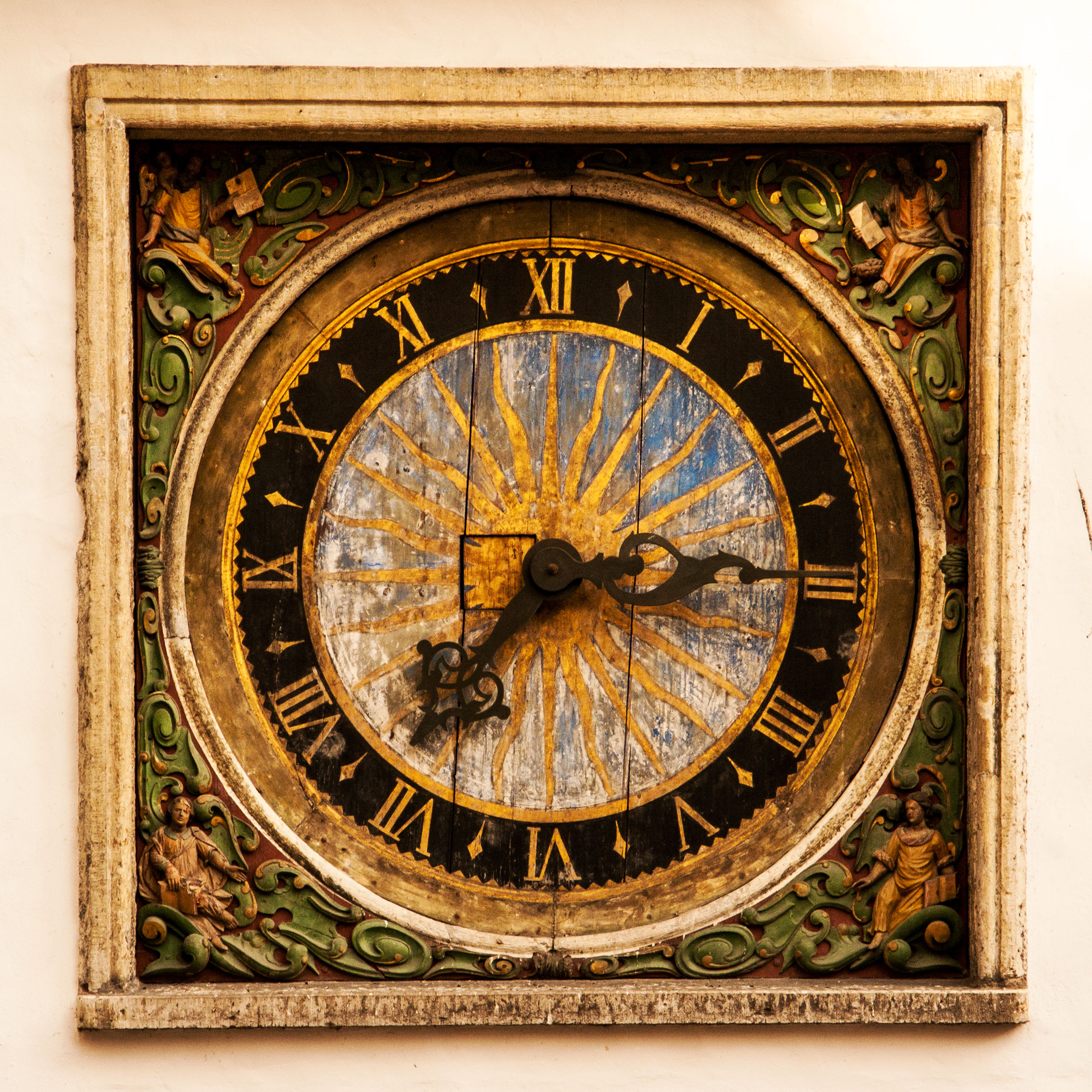 Finely carved clock of the Church of the Holy Ghost in Tallinn, Estonia, work by Christian Ackermann (late 17th century)